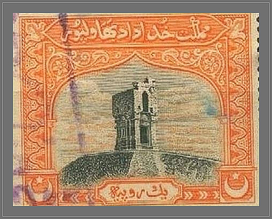 Bahawalpur Postal Stamp (Former Indian / Pakistani) State